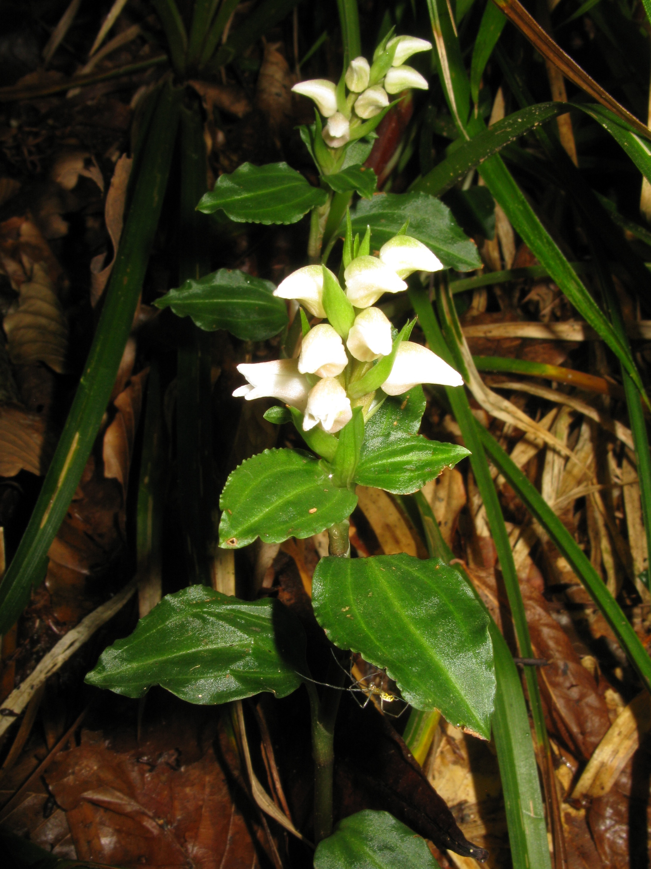 Goodyera foliosa var. laevis, Niigata pref., Japan